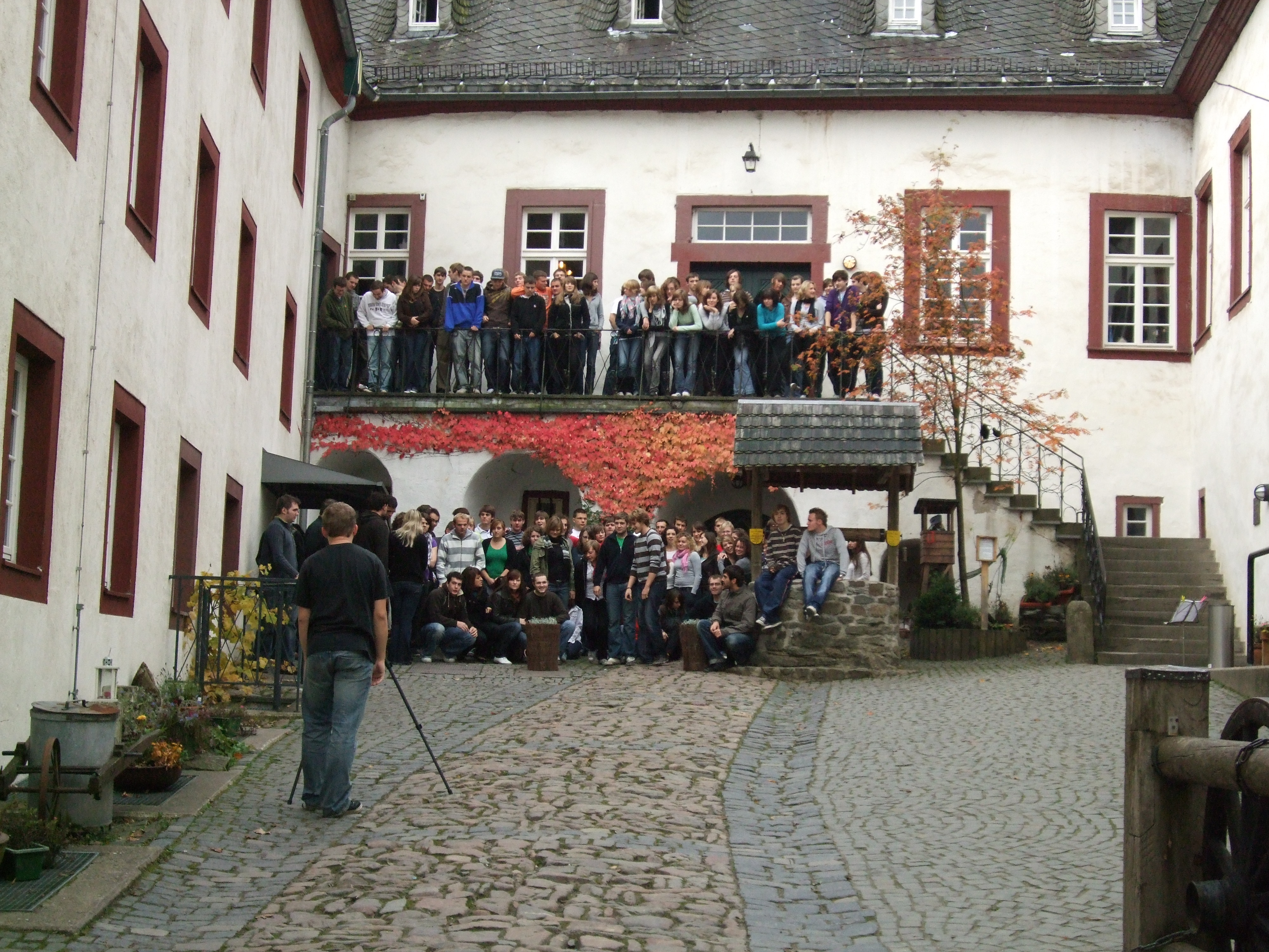 Visitors at Burg Bilstein Youth Hostel